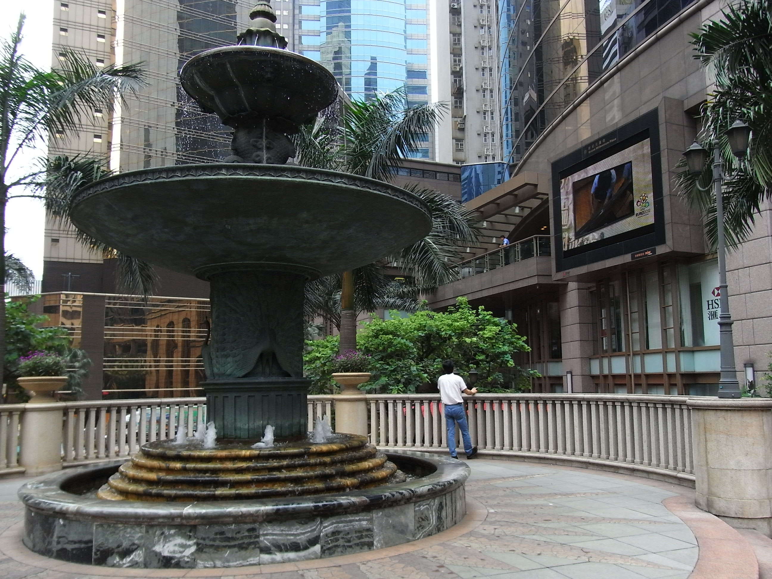 新紀元廣場, Grand Millennium Plaza, Sheung Wan, Hong Kong